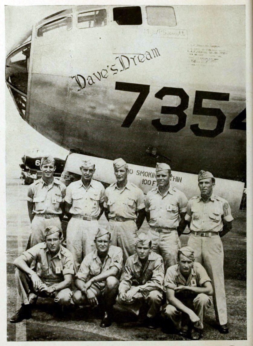 Winners of a hotly contested competition in which the country's finest very-heavy-bomber crews took part, the crew of "Dave's Dream" pose in front of their ship. Front row, loft to right: 1st Lt. Robert M. Glenn, flight engineer. TSgt. Jack Cothran, radio operator, Cpl. Horbert Lyons, left scanner, Cpl. Roland M. Medlin, riqht scanner. Back row: Capt. William C. Harrison, Jr., co-pilot: Major Woodrow P. Swancutt, pilot; Major Harold H. Wood, bombardier; and Capt. Paul Chenchar, Jr., radar operator.